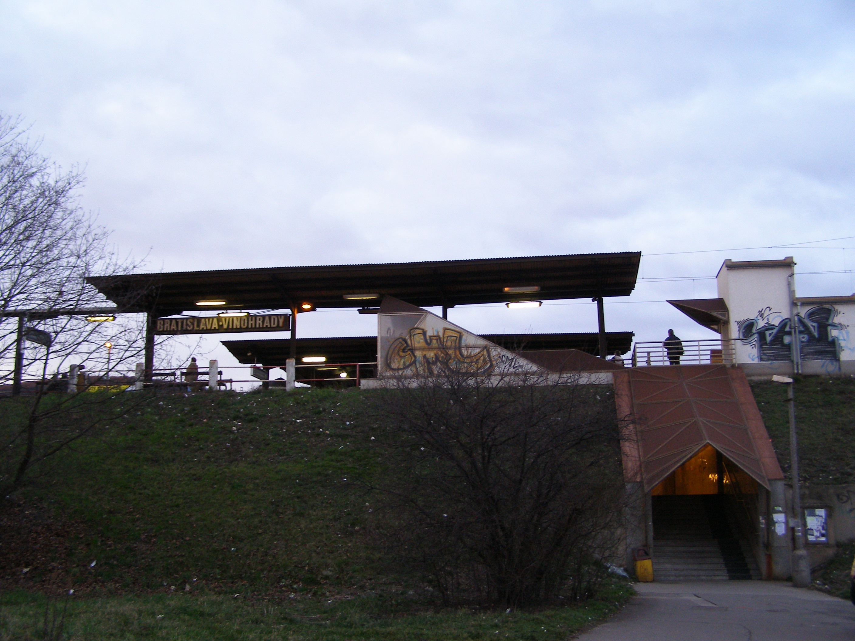 Train station Bratislava-Vinohrady